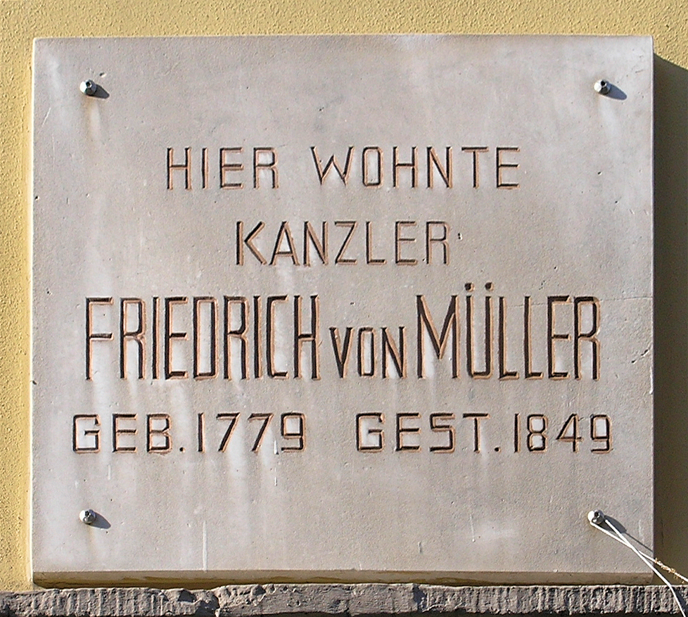 Memorial plaque, Friedrich von Müller (Politiker), Windischenstraße 12, Weimar, Germany Koordinate:52°58′45″N 11°19′42″E / 52.97917°N 11.32833°E